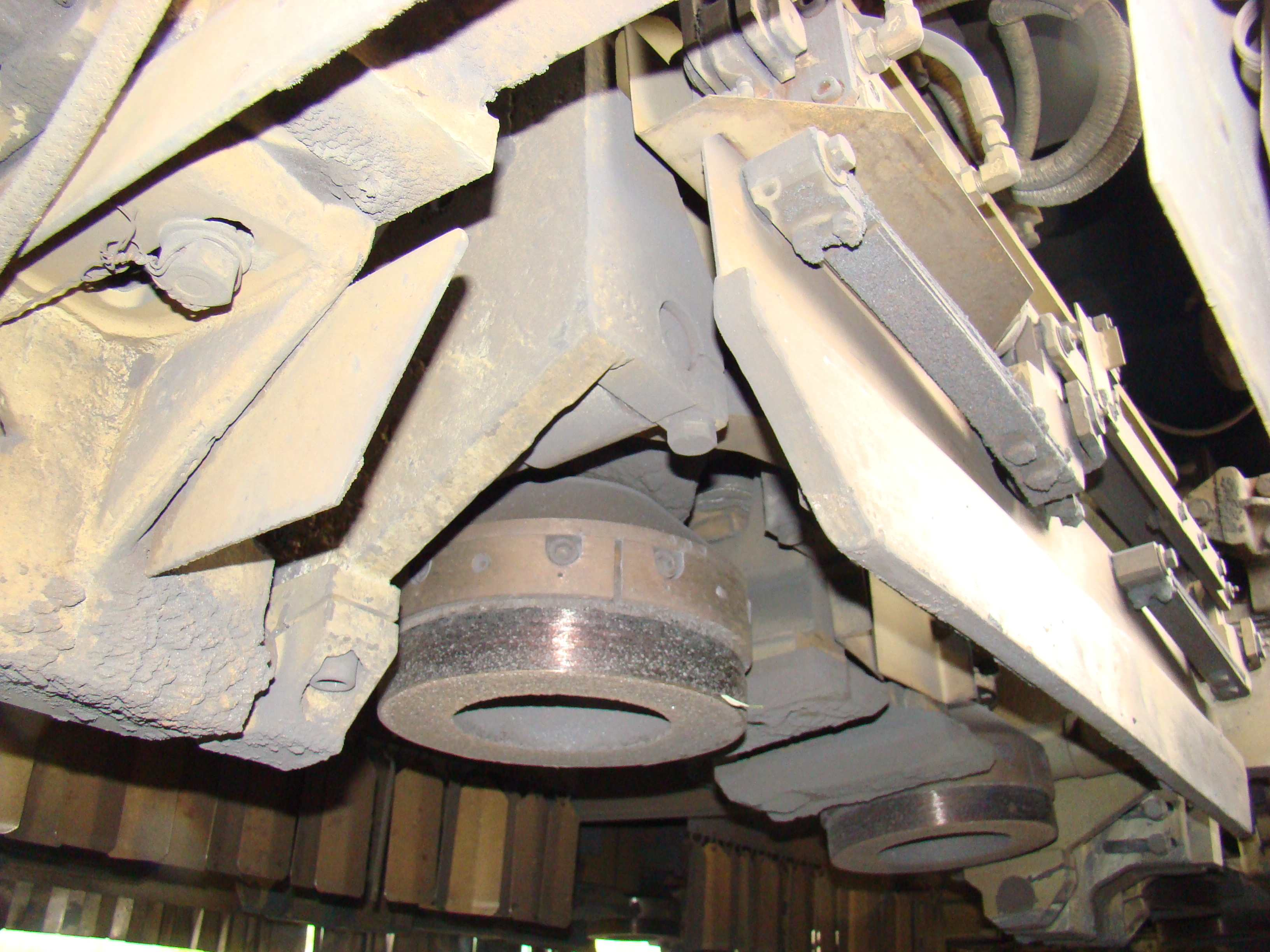 Abrasive wheels on rail-grinding train RSHP-48 - production of Kalugaremput'mash